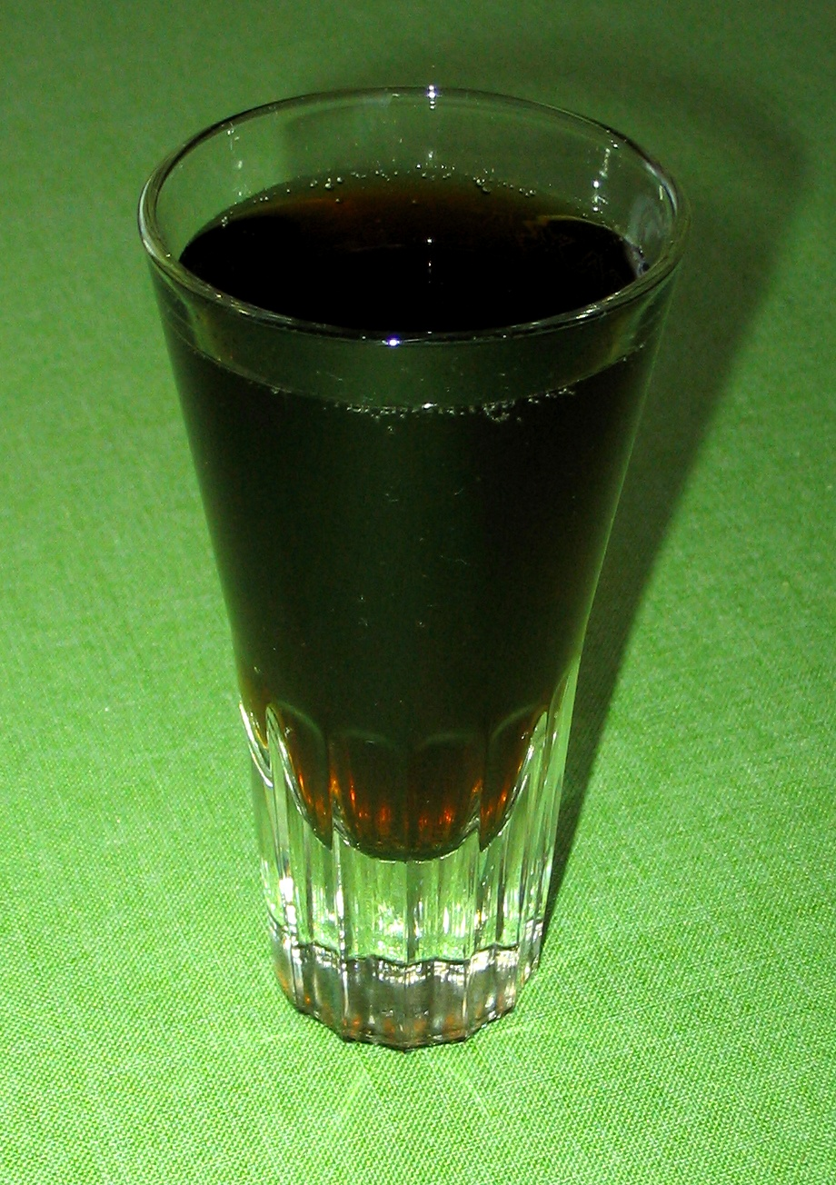 A glass of kvass.